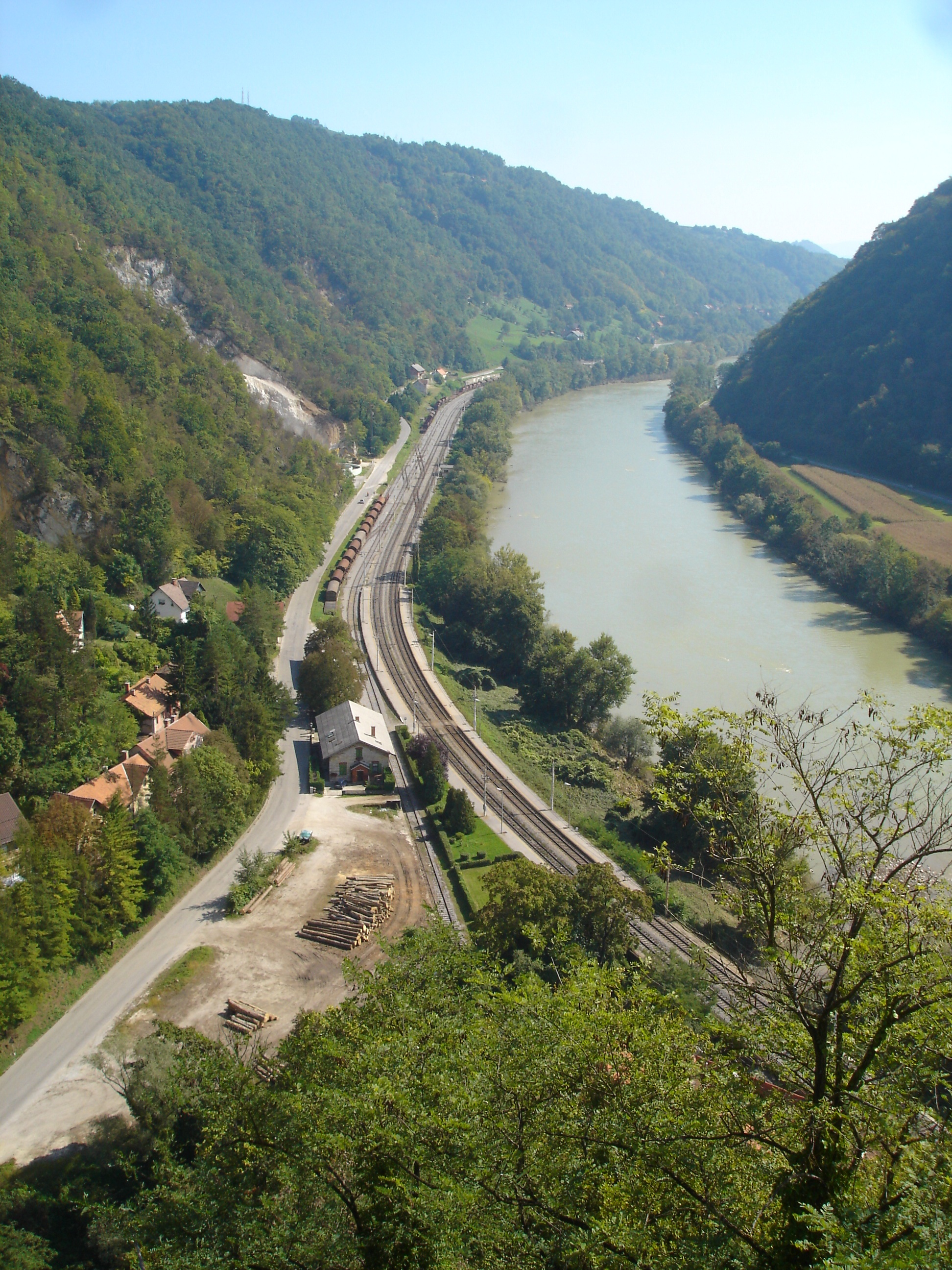 Brestanica Railwaystation from the Brestanica castle